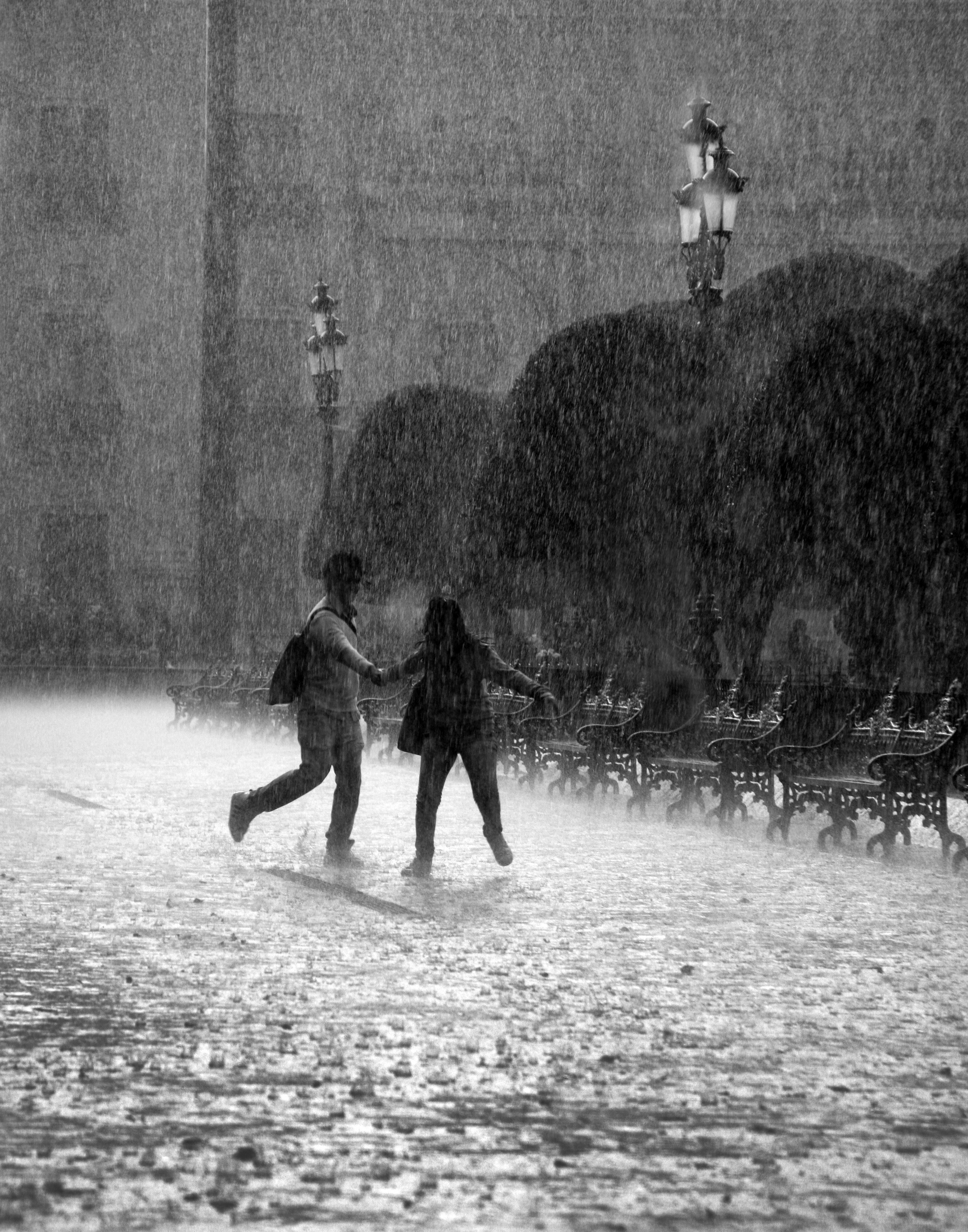 Falling rain in downtown Leon, Guanajuato, Mexico.